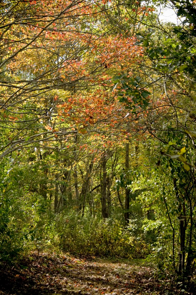 Skyline Trail in fall at Bald Eagle State Park